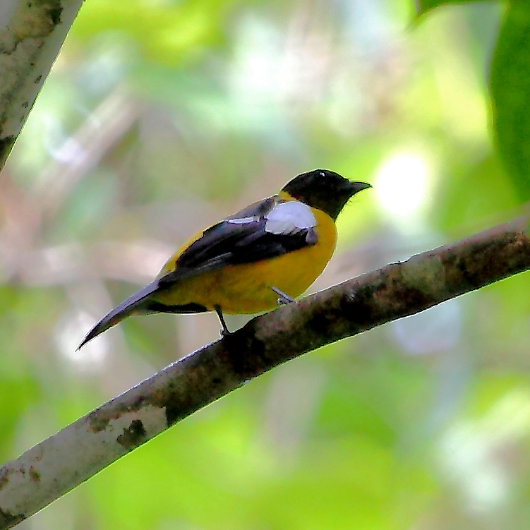 White-winged Shrike-Tanager at Apiacás - MT - Brazil